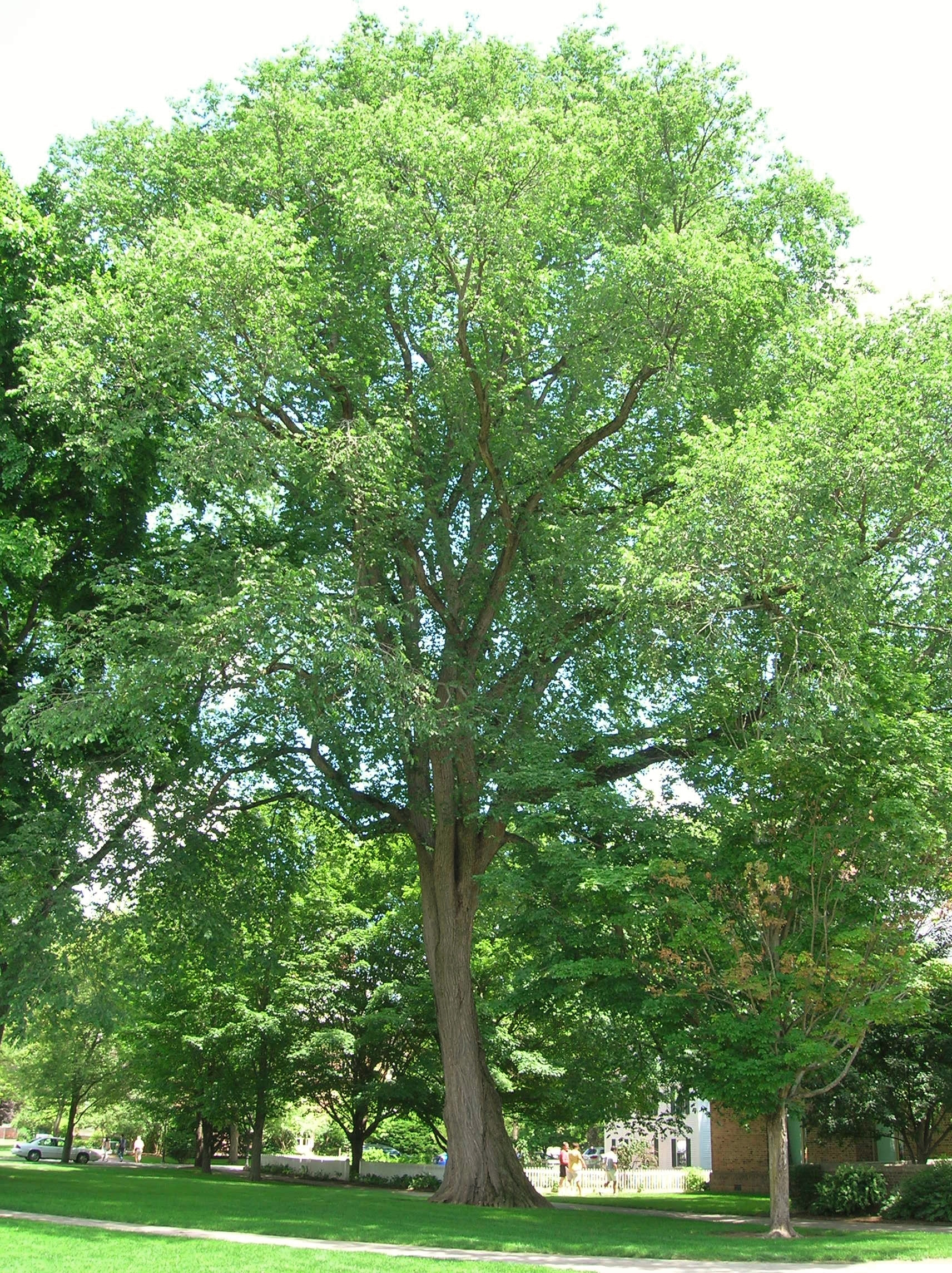 Photo of American elm tree located on the Deerfield Academy campus in Old Deerfield, Massachusetts. Photo was taken 6/14/2012.